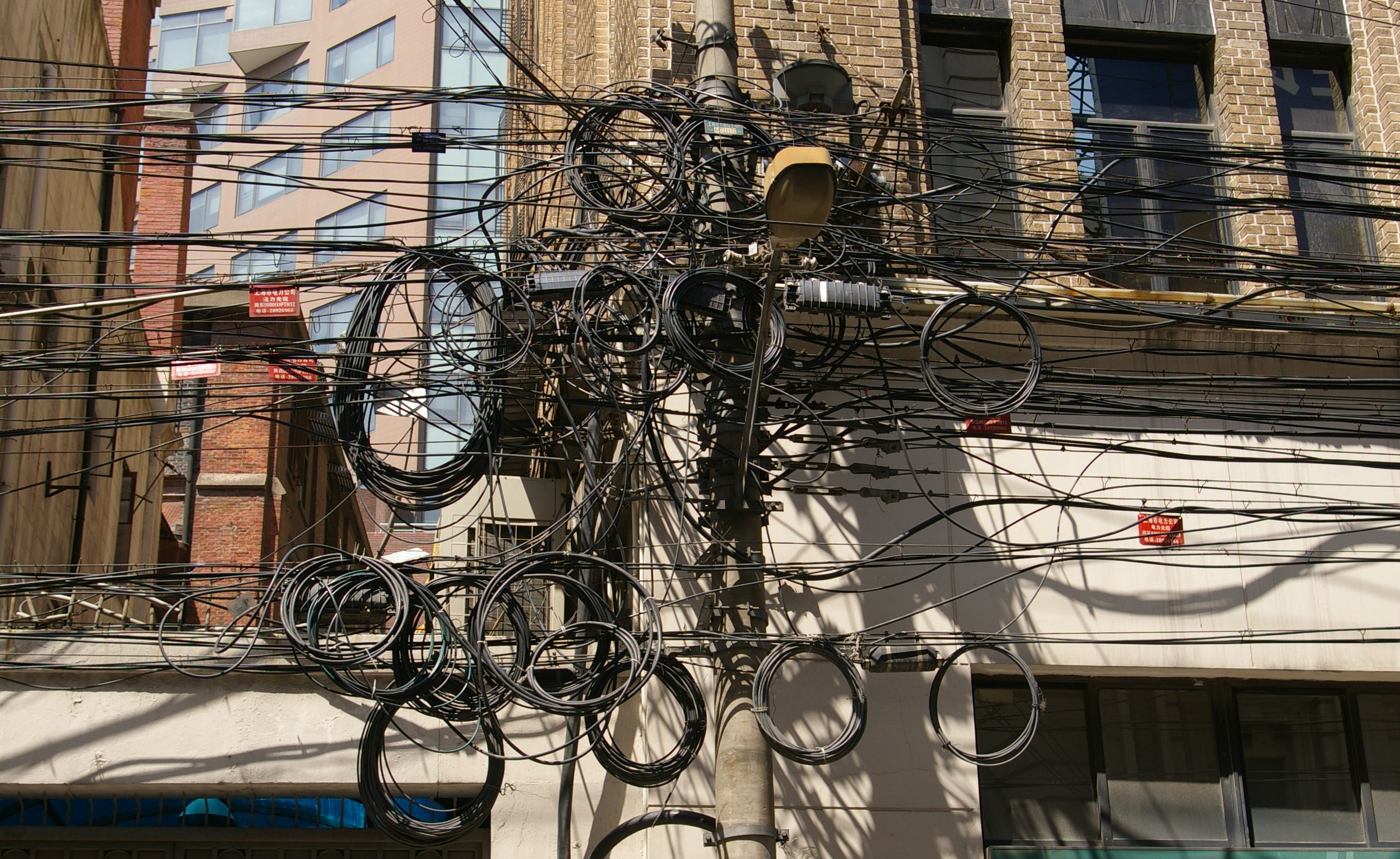 Electrical and telecommunication wires over Jiangxi Road in Shanghai